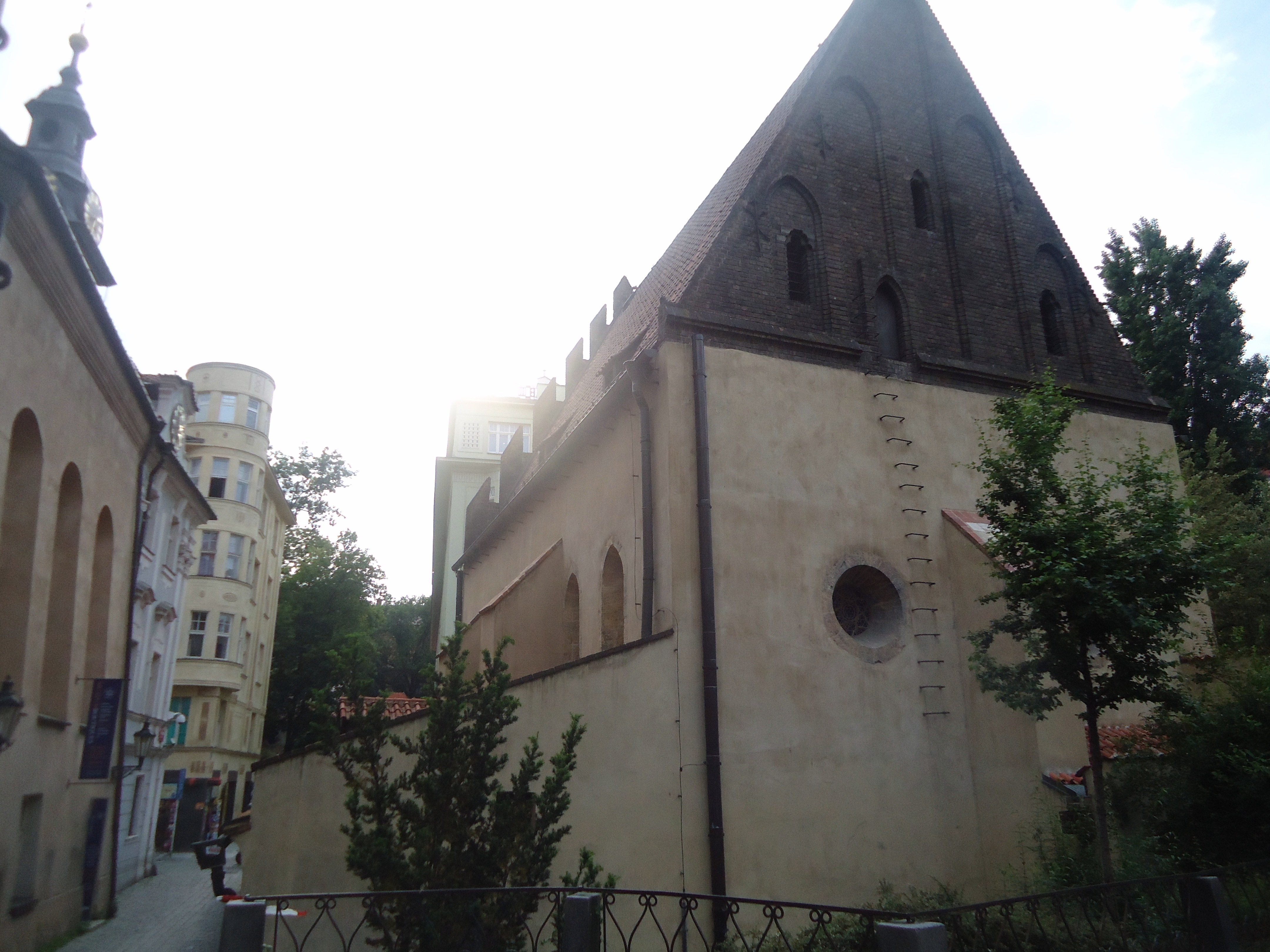 Staronová synagóga